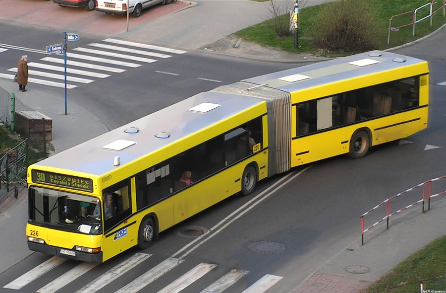 Neoplan N4021 bus (#226) built 1997 in PKM Katowice (ex. EVAG Erfurt).